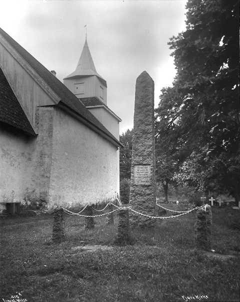 Grave obelisk for Terje Vigen at Fjære church in Grimstad, Norway.